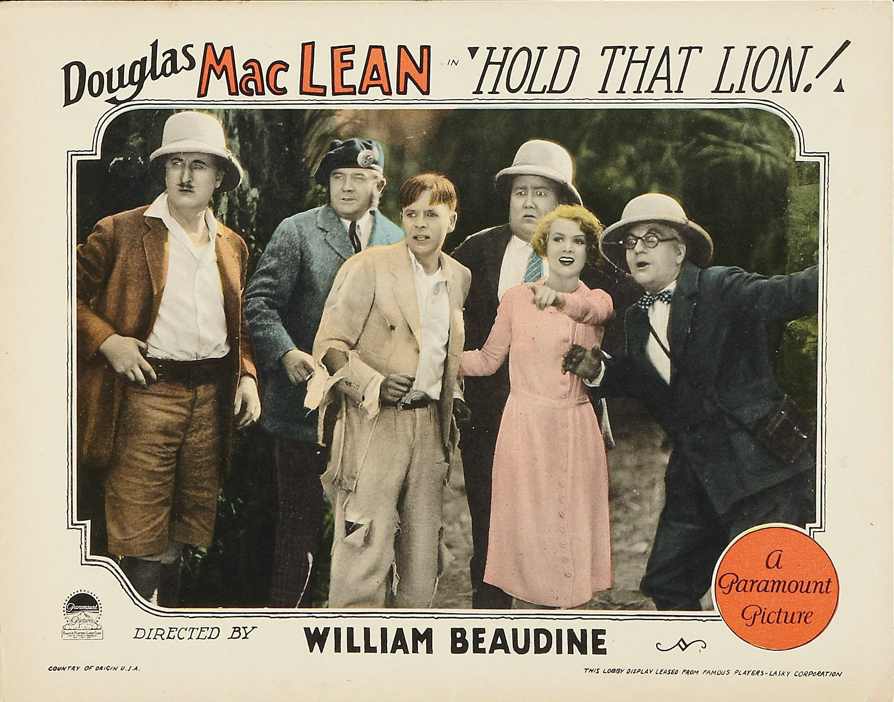 Lobby card for the American comedy film Hold That Lion (1926) with Wade Boteler, Cyril Chadwick, Walter Hiers, Constance Howard, Douglas MacLean, and George C. Pearce.